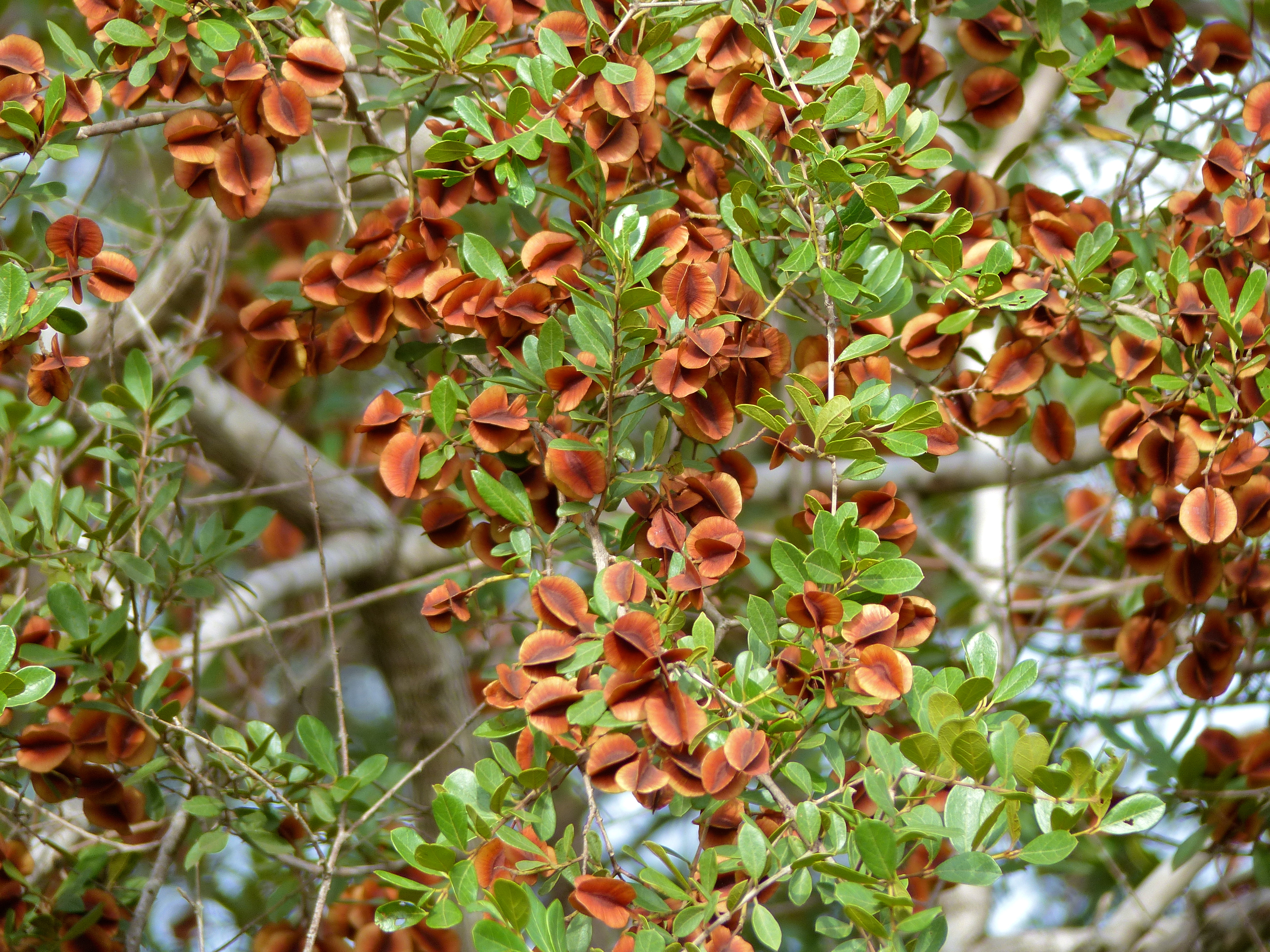 H10 Road North of Lower Sabie, Kruger NP, SOUTH AFRICA